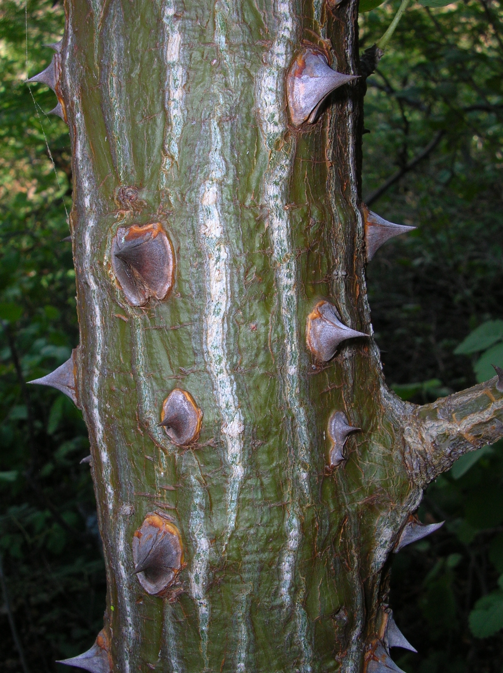 trunk of Erythrina sandwicensis (Wiliwili)